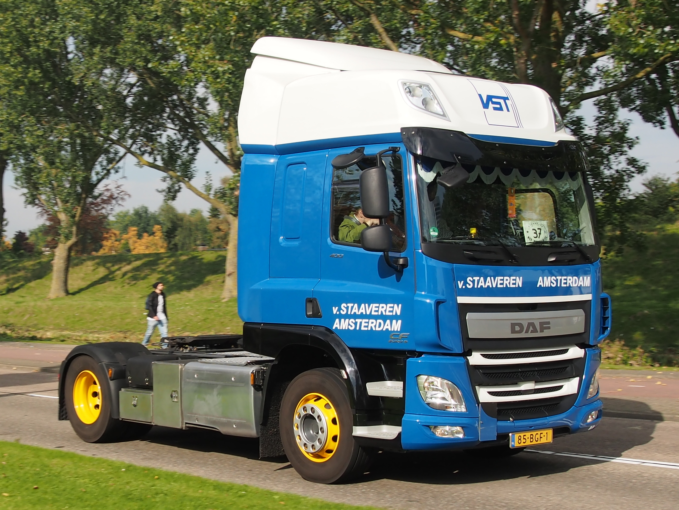 Photographed at Hoofddorp, The Netherlands.